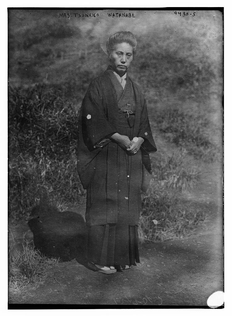 Bain News Service,, publisher. Mrs. Tsuneko Watanabe [between ca. 1915 and ca. 1920] 1 negative : glass ; 5 x 7 in. or smaller. Notes: Title from unverified data provided by the Bain News Service on the negatives or caption cards. Forms part of: George Grantham Bain Collection (Library of Congress). Format: Glass negatives. Repository: Library of Congress, Prints and Photographs Division, Washington, D.C. 20540 USA, General information about the Bain Collection is available at Higher resolution image is available (Persistent URL): Call Number: LC-B2- 4430-2